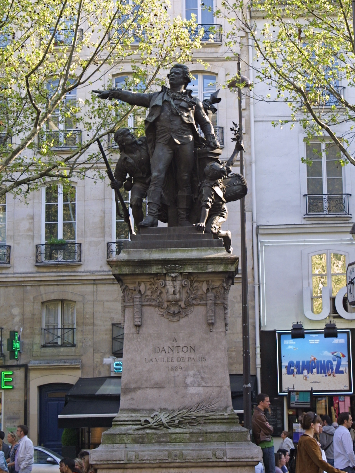 Statue of Danton, Boulevard Saint-Germain, Paris. 48.852441,2.339201